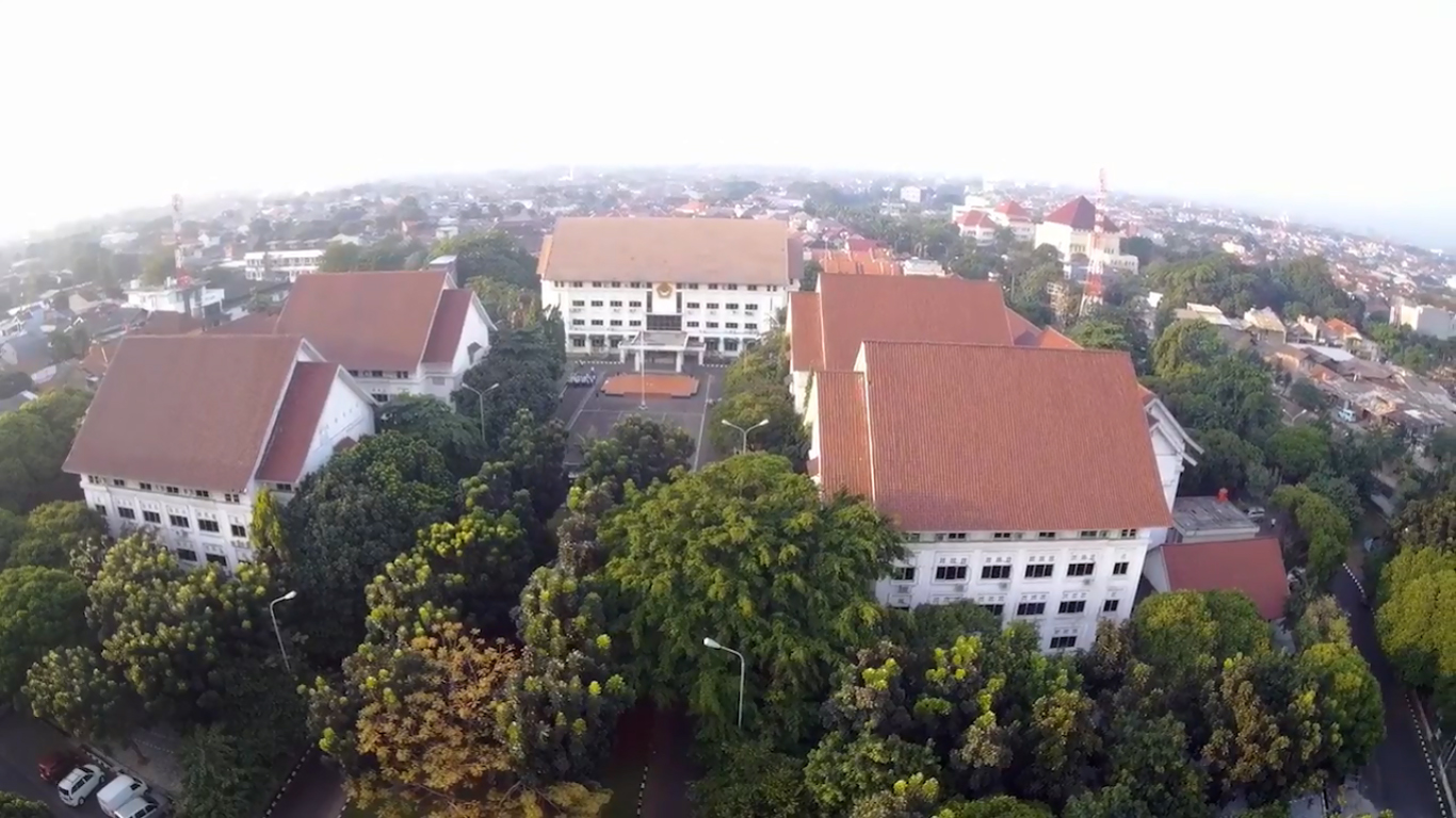 Darma Persada University (Unsada) has 4 (four) main building, Rector Building, Faculty of Letter & Economic Building, Faculty of Technic & Marine Technology.